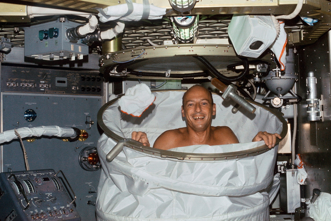 NASA Astronaut Charles "Pete" Conrad, commander of the Skylab 2 mission, smiles after using the shower facility in the crew quarters of the Skylab Orbital Workshop. NASA photo SL2-02-162 in public domain.